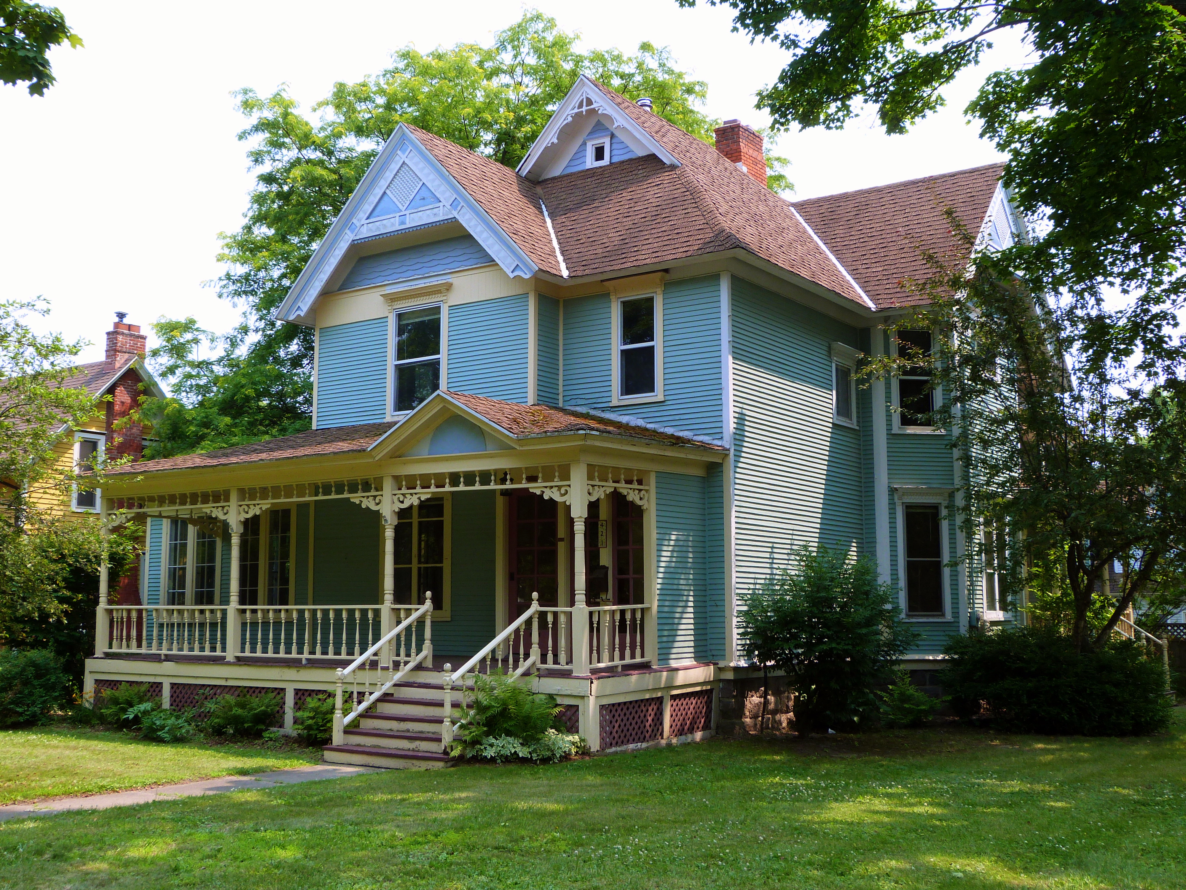 The historic William Bigelow Residence / Thomas Dewey Boyhood Home (built 1898), located at 421 West Oliver Street in Owosso, Michigan, United States, is listed as a contributing resource in the Oliver Street Historic District. The historic district is listed on the US National Register of Historic Places.